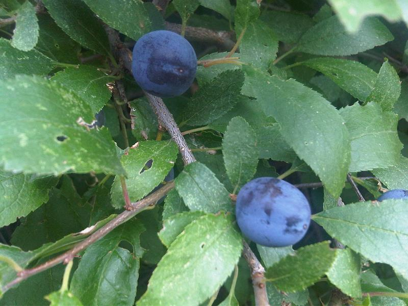 Plum (Prunus domestica) fruits and leaves in Putney Heath Common, England.